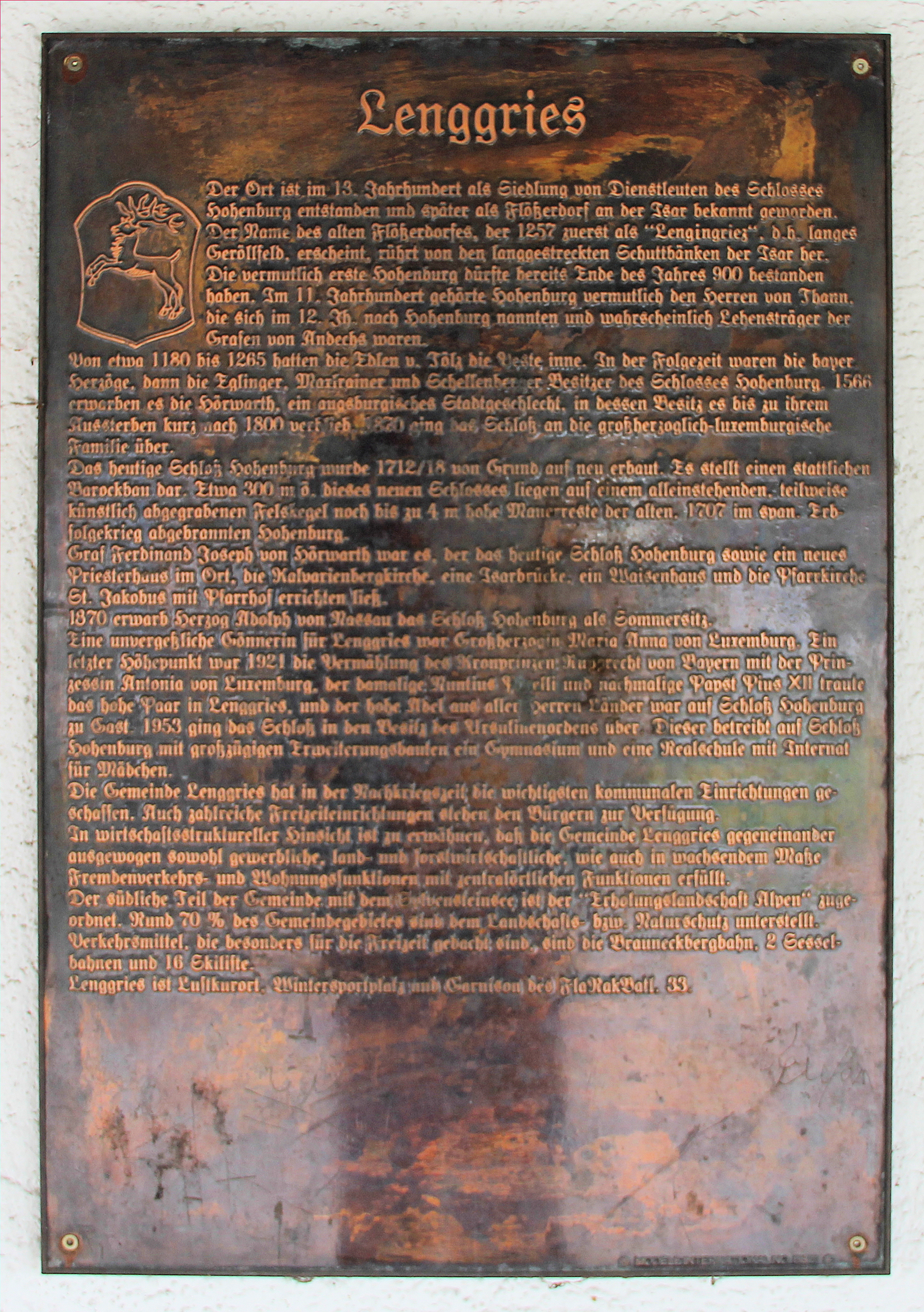 Memorial plaque, Lenggries, Karwendelstraße 1, Lenggries, Germany